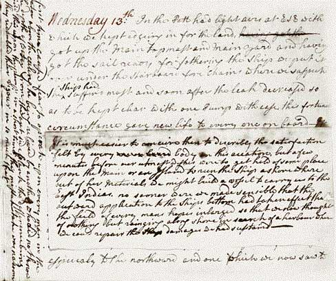 Manuscript of James Cook's Journal on the Endeavour